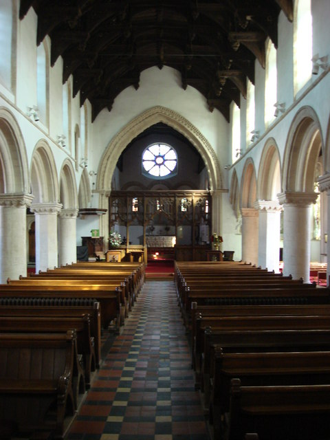 Interior, St. Nicholas' Church, Castle Hedingham